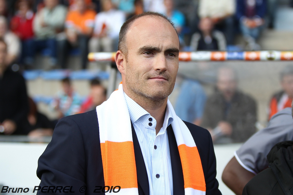 Loic Fery, director of the French soccer team "FC Lorient"